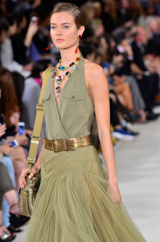 Monika "Jac" Jagaciak walking the Ralph Lauren Spring/Summer fashion show.